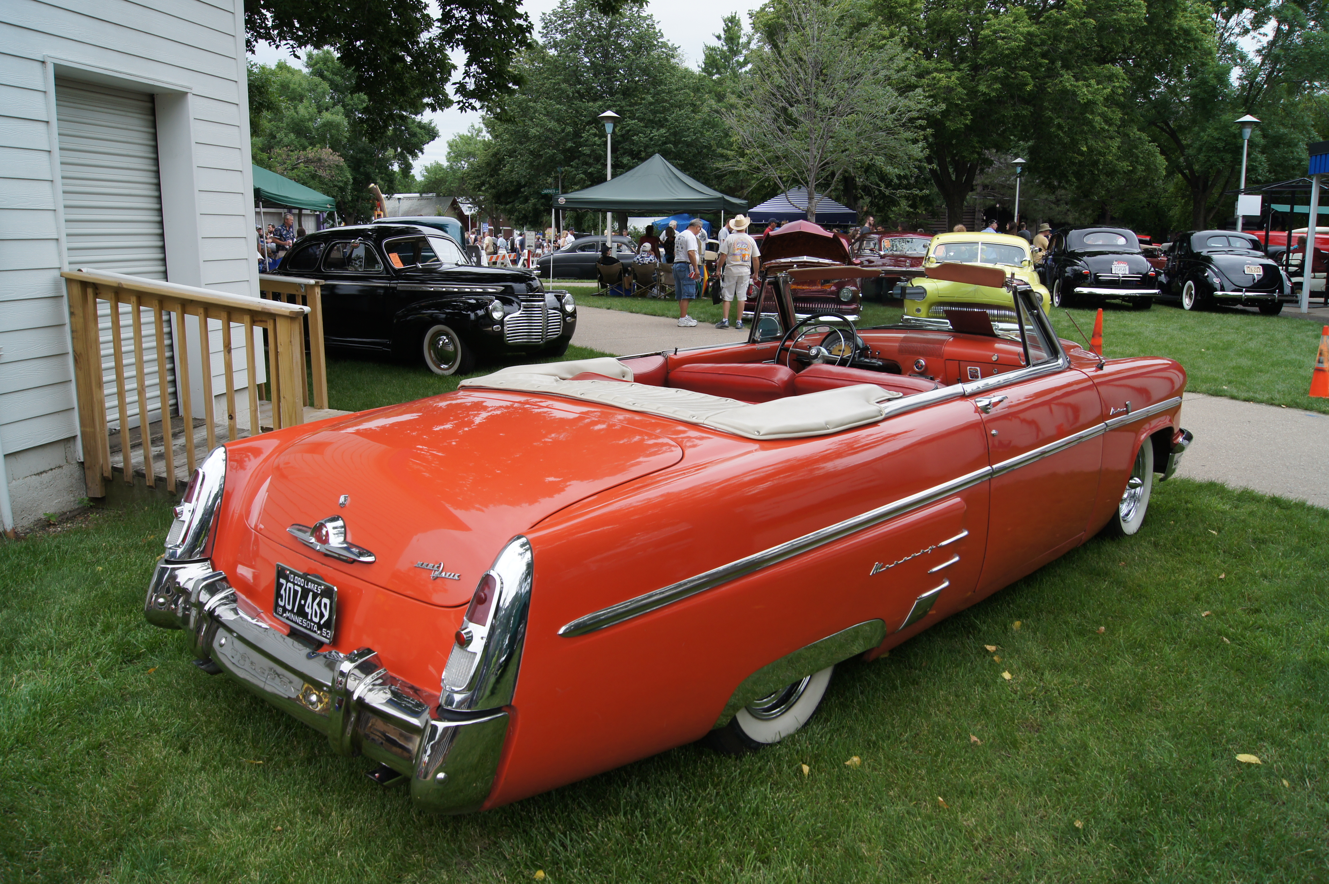 Minnesota Street Rod Association 39th Annual "Back to the Fifties" June 2012 Minnesota State Fairgrounds St. Paul MN